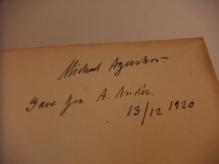 Michael Agerskov's signature in his copy of "Vandrer mod Lyset!". The copy was given to him as a gift from the blacksmith A. Andèr, who made the model of the universe, based upon the informations given in "Vandrer mod Lyset!".